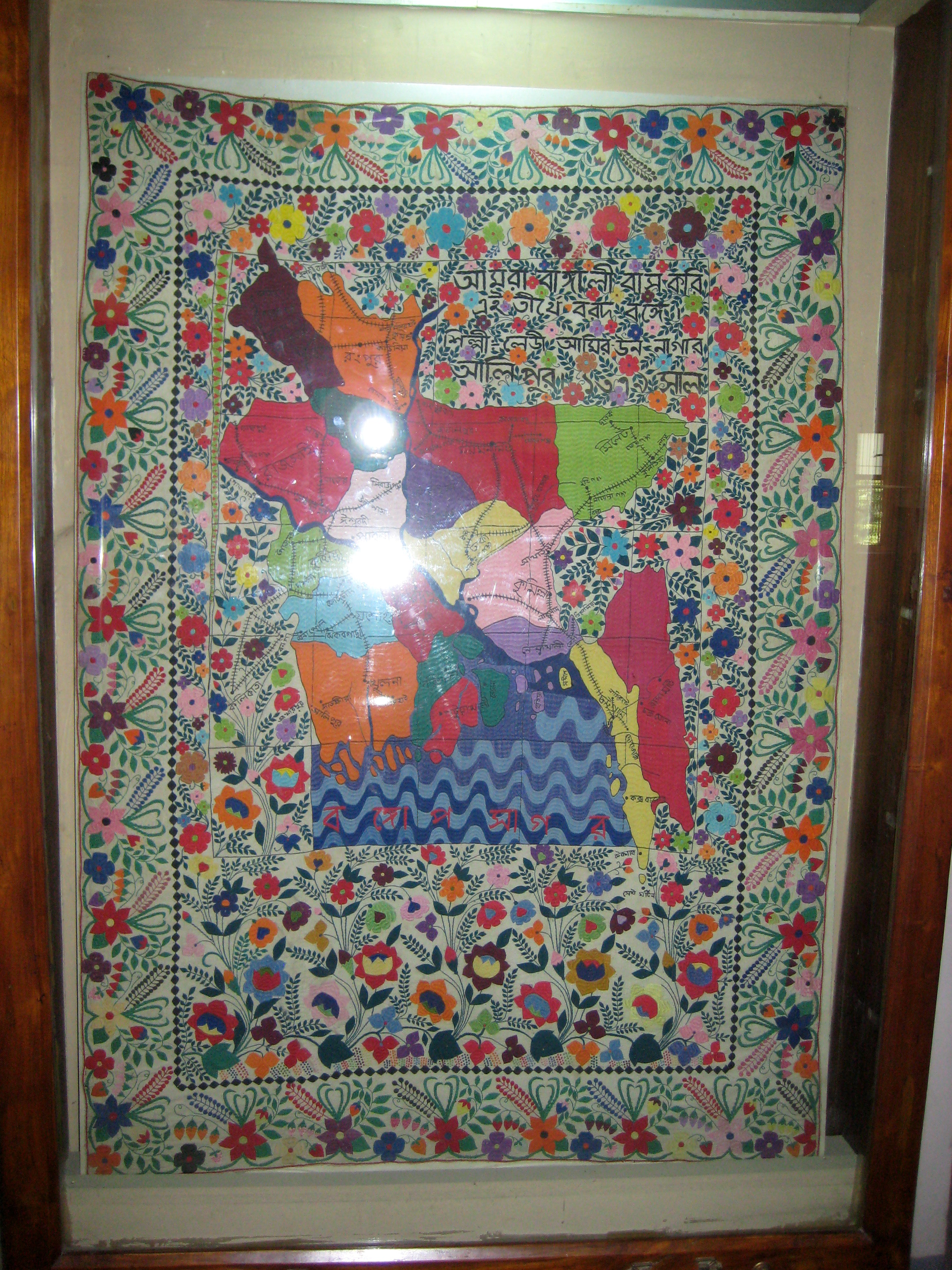 Nokshi Katha , Artist: Lady Amir un Nagar, Place: Alipur, Date: 1379 (Bangla) Now it is in the Sonargaon Museum. Sonargaon, is one of the oldest capital of Bangla. It is located near the current-day city of Narayanganj, Bangladesh.